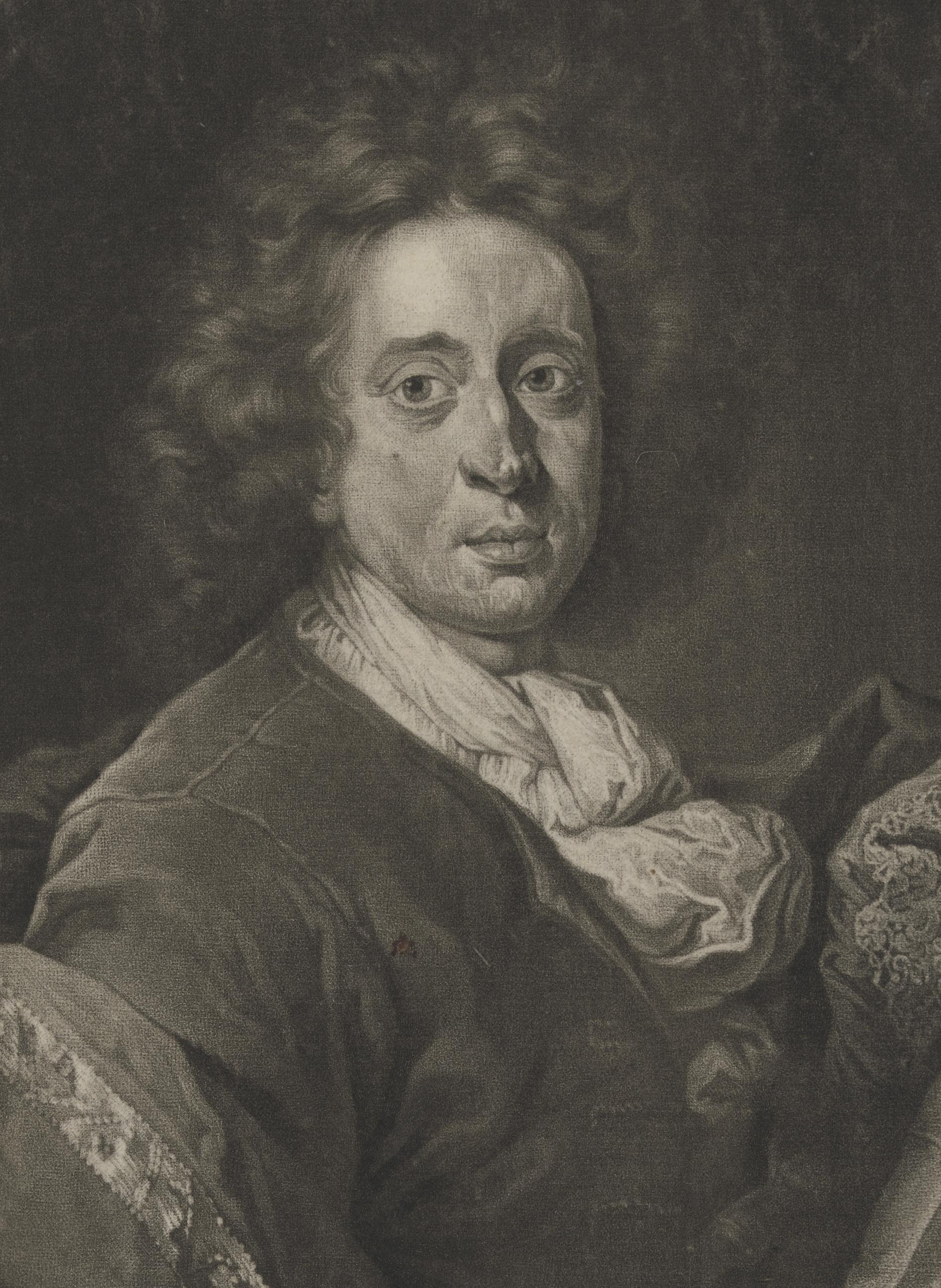 Depicted person: Pieter Schenk (I)